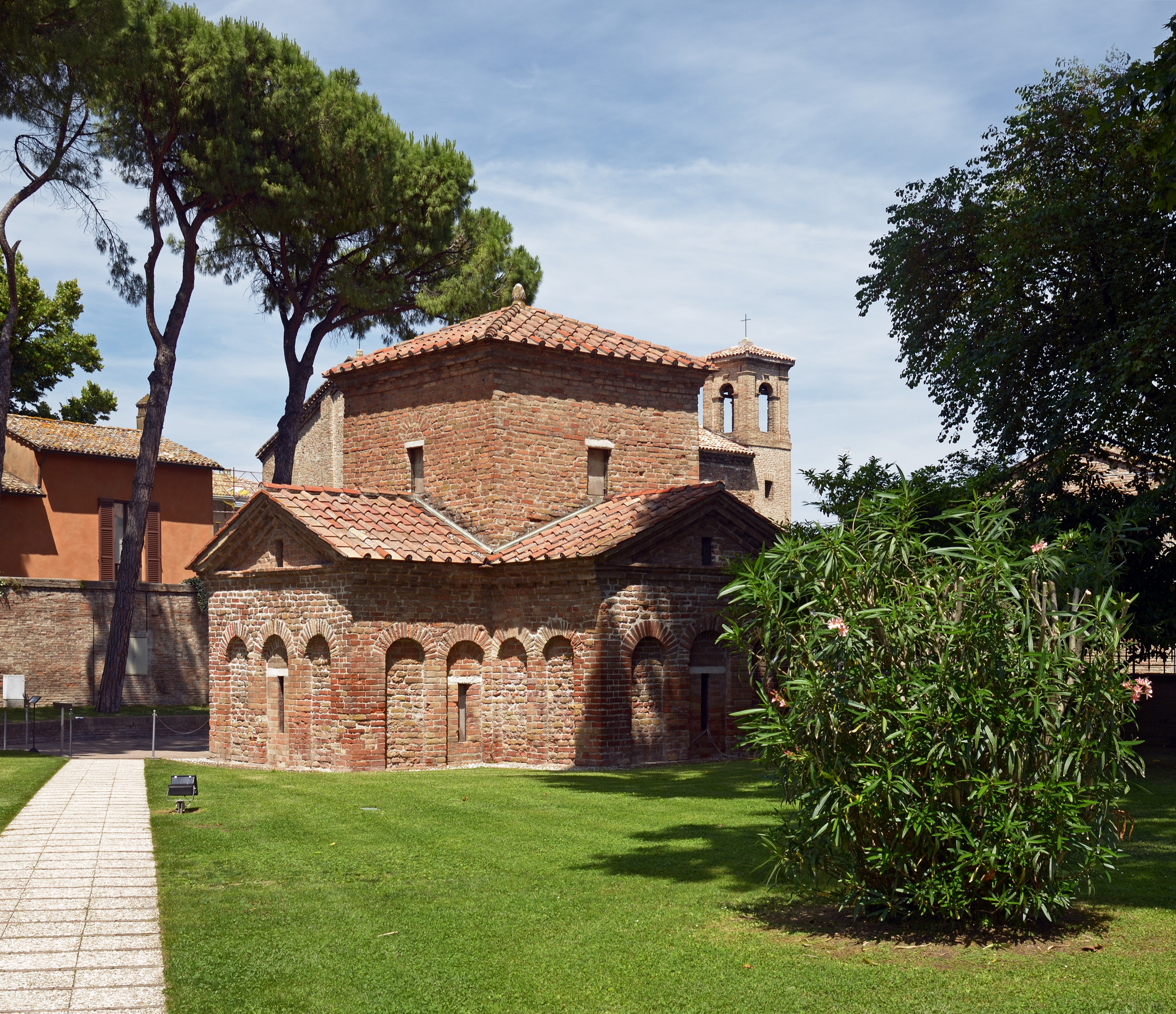 Mausoleum of Galla Placidia. Ravenna, Italy